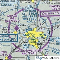 FAA Sectional Chart showing Capital Region International Airport (FAA: LAN), formerly Capital City Airport, in Lansing, Clinton County, Michigan